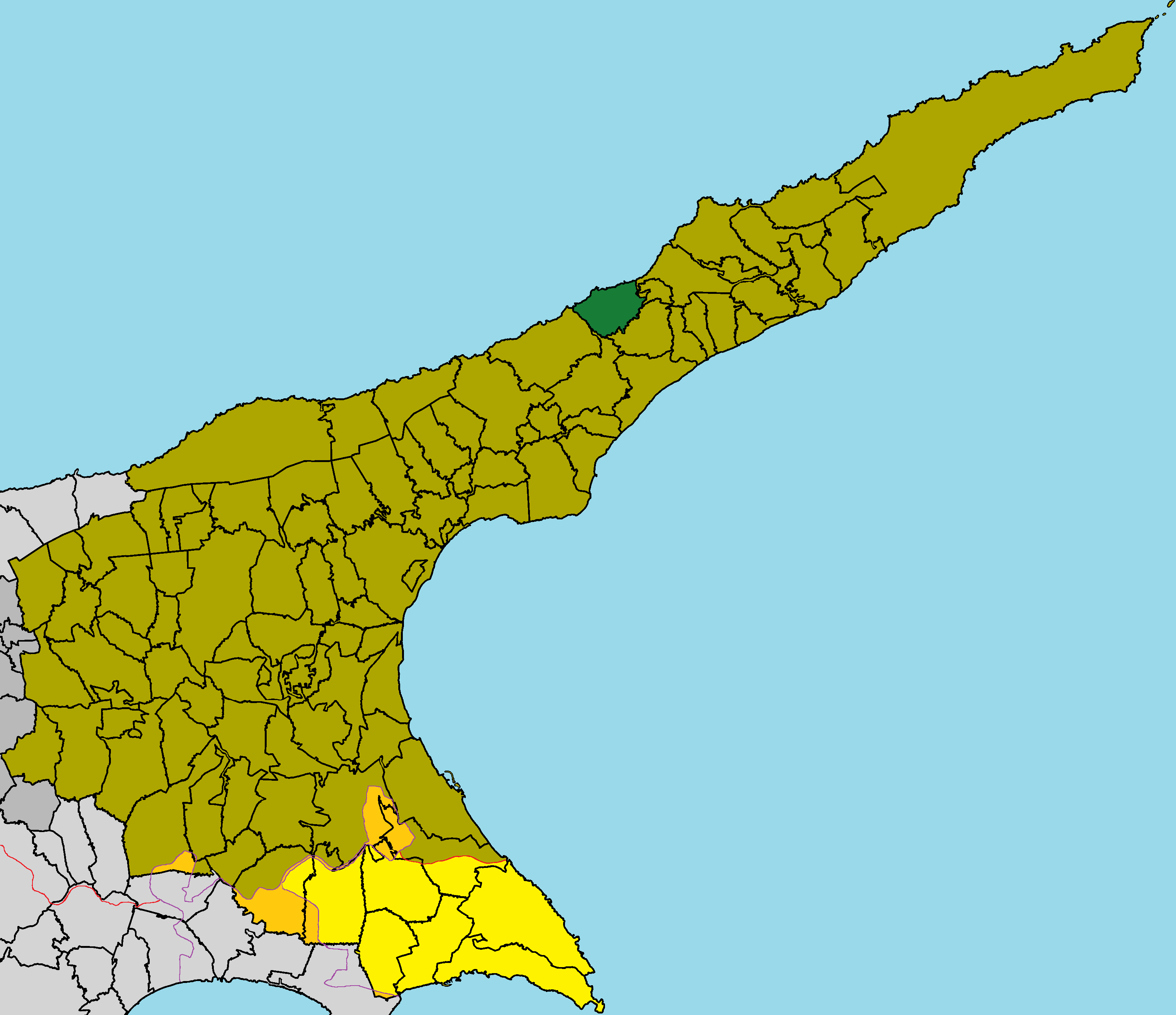 Platanissos in Famagusta District (de jure).